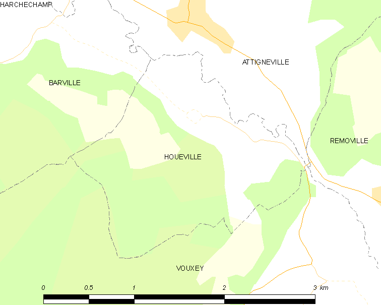 Map of French municipality Houéville